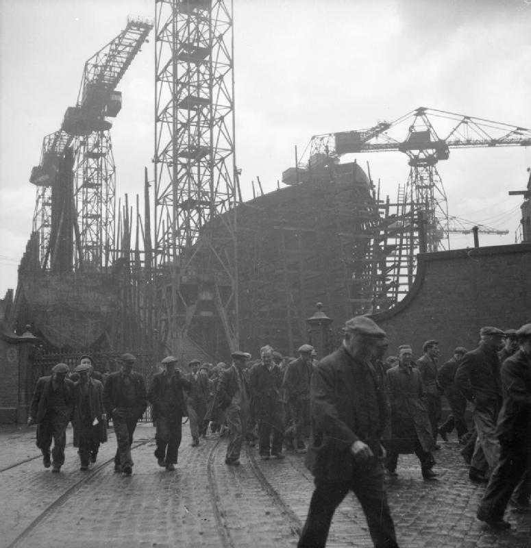 Glasgow Shipyard- Shipbuilding in Wartime, Glasgow, Lanarkshire, Scotland, UK, 1944 Workers stream through the gates of a Glasgow shipyard as they leave work for the lunchtime break. The huge structure of a ship 'skeleton' surrounded by timber scaffolding and several large cranes, just on the other side of the gates, dominates the scene.